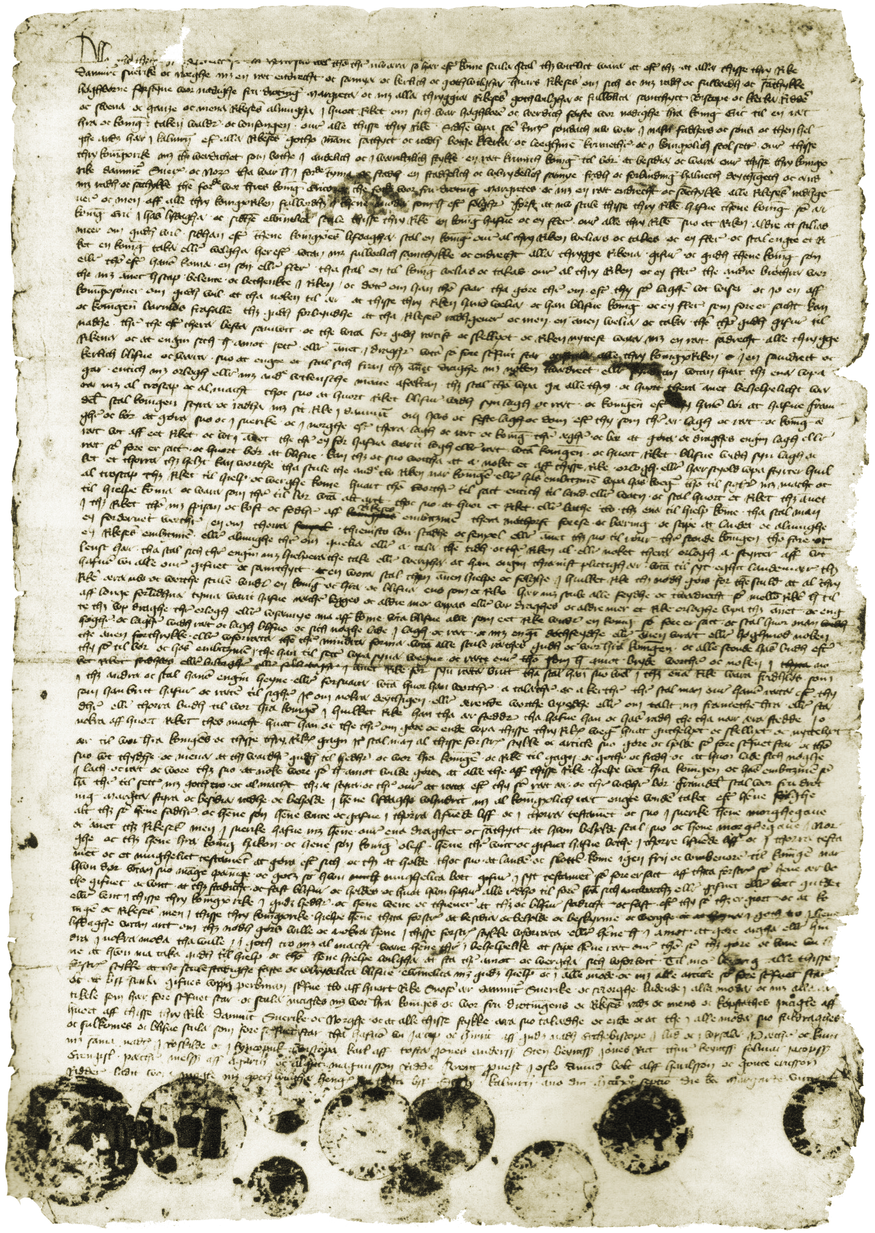 Letter of union between Denmark, Sweden and Norway. This was never approved though.